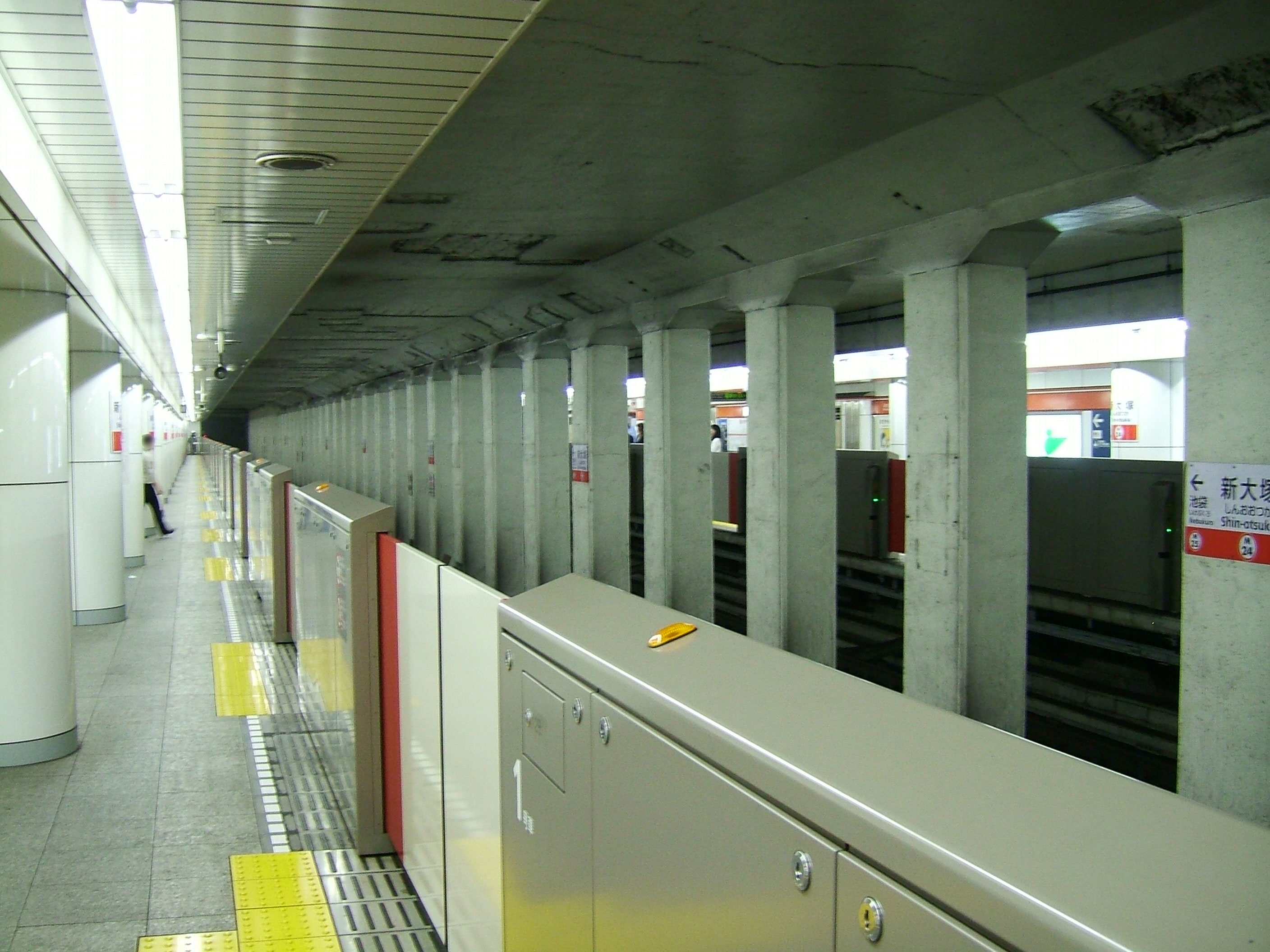 The platforms at Shin-ōtsuka Station on the Tokyo Metro Marunouchi Line in Bunkyō city, Tokyo, Japan